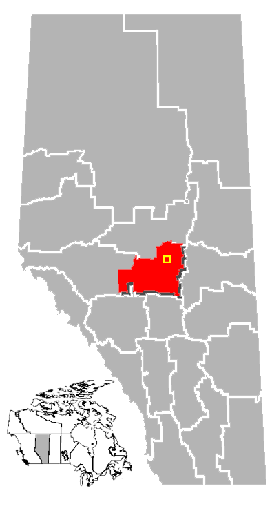 Location of St. Albert, Census Division No. 11, Albera